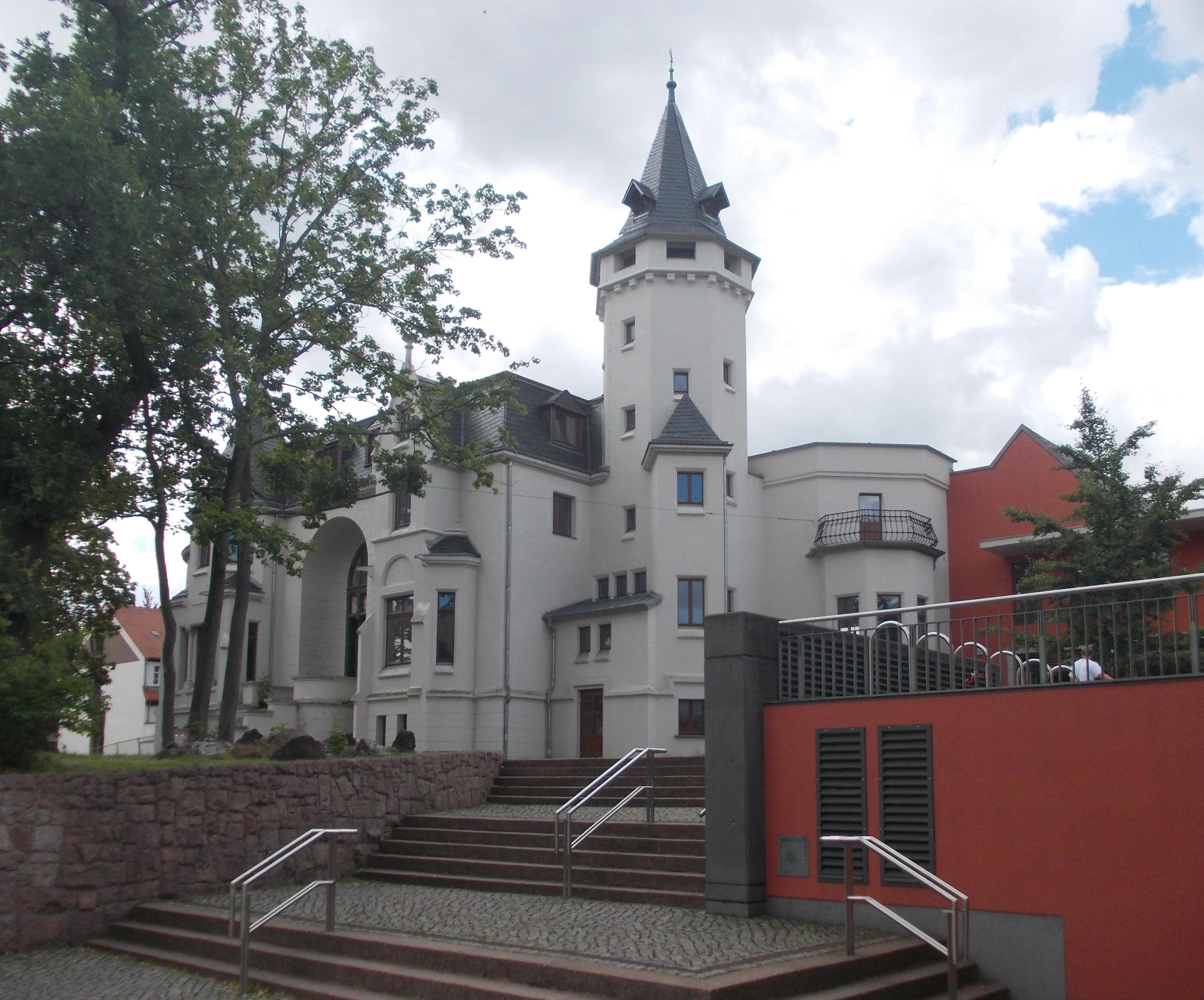 Villa Reil near the zoo in Halle (Saale), Reilstrasse 57